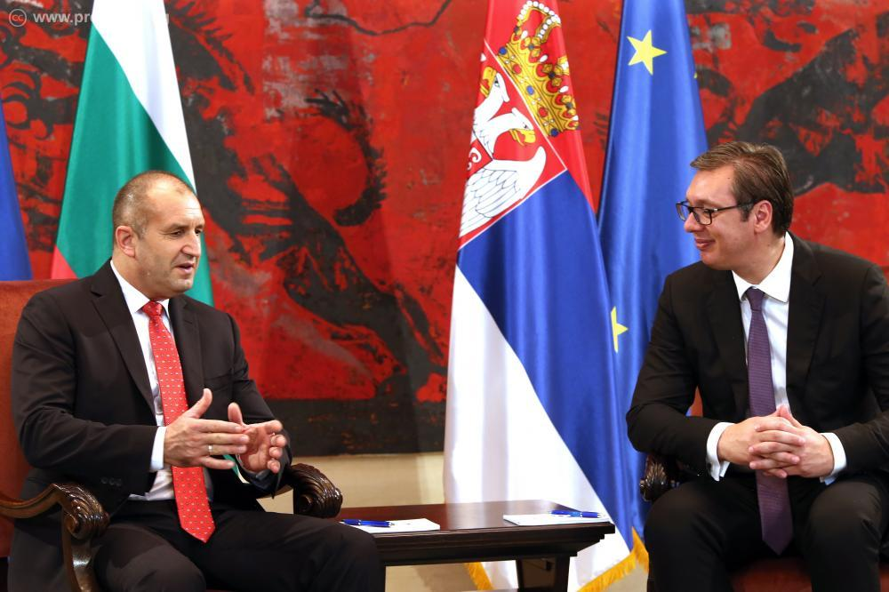 Official visit of President Rumen Radev to the Republic of Serbia.